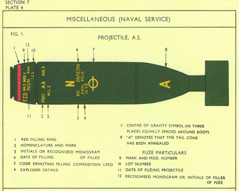 Diagram showing outline and markings on Mark 3 bomb for British "Squid" anti-submarine mortar.